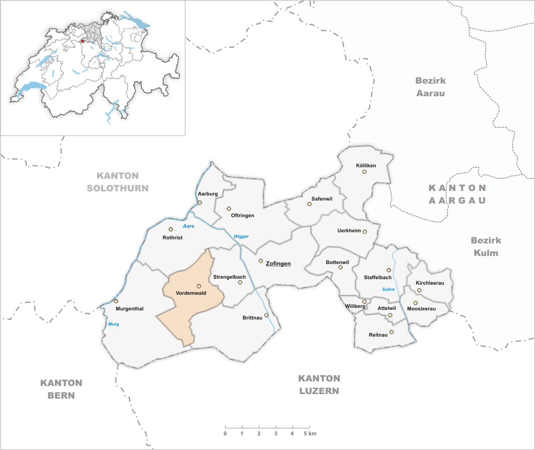 Municipality Vordemwald